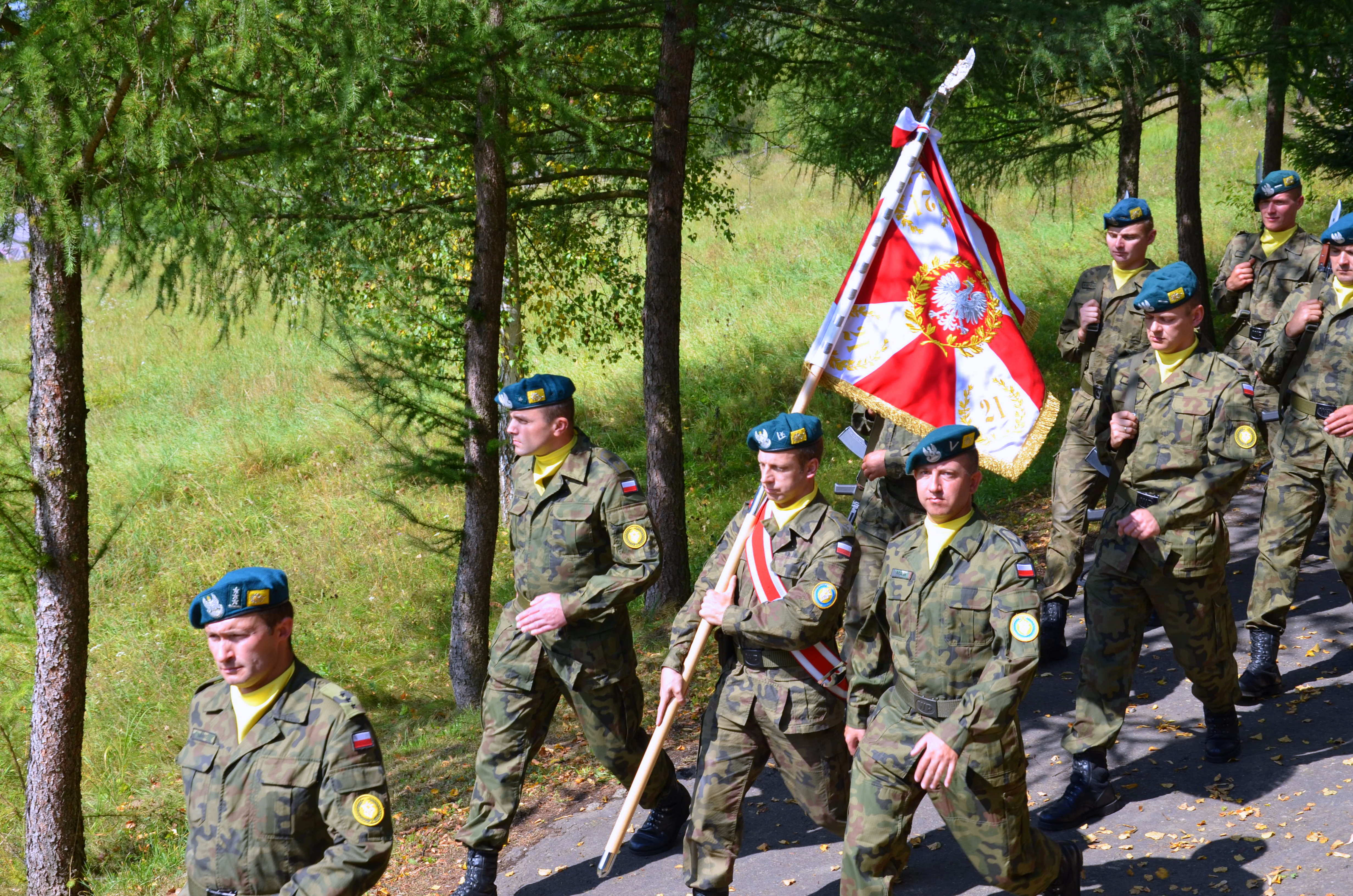 Das 21. Logistikbataillon vom 21. Podhale-Schützen Brigade, Bykowce am 10.09.2013